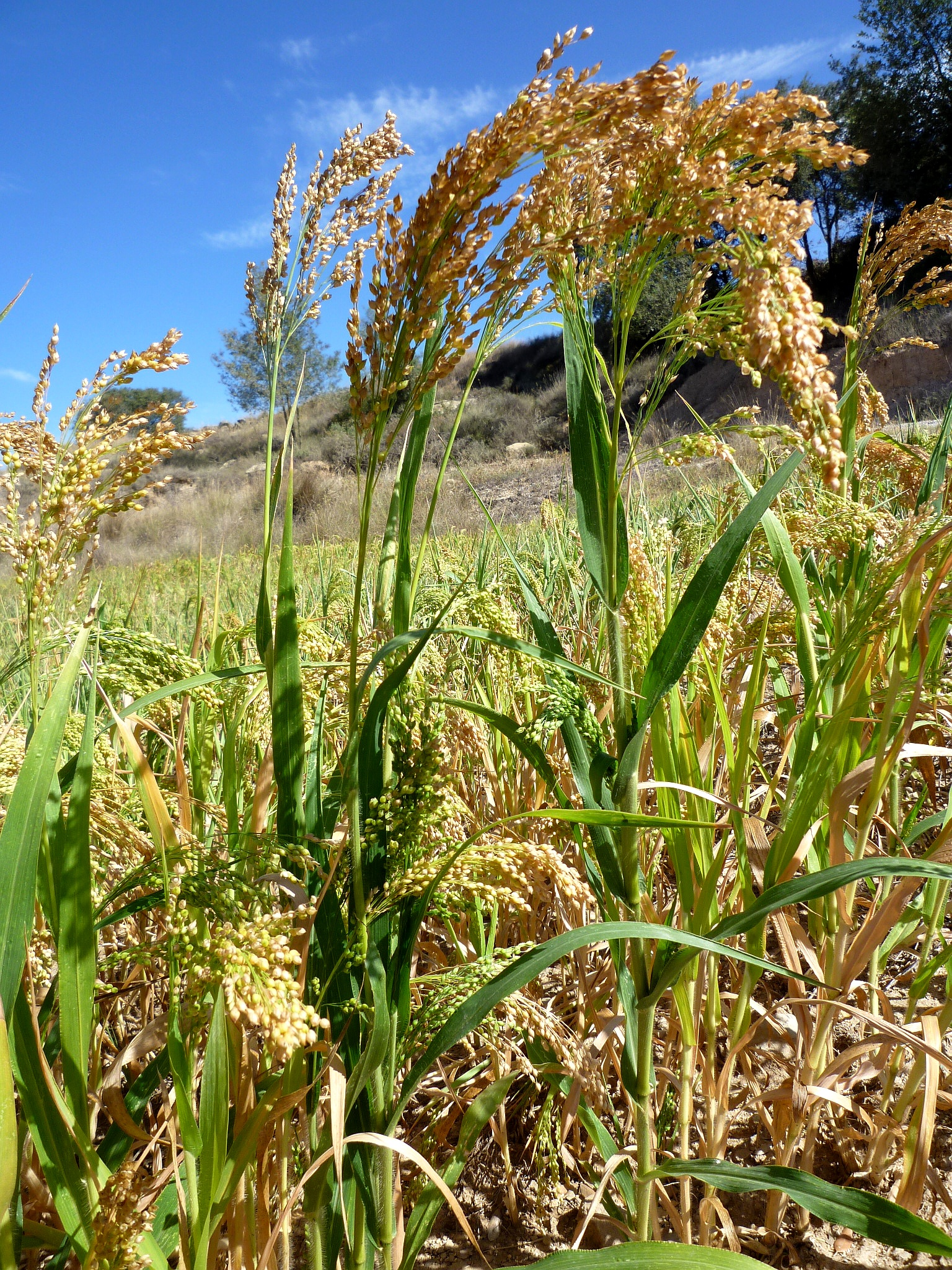 Panicum miliaceum. In Torà (Segarra - Catalunya). To 670 m. altitude